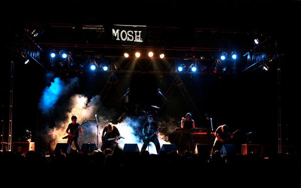 Foto en vivo del año 2008.